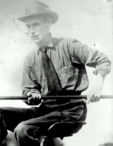 Gov. Major on Good Roads work (LOC) Bain News Service,, publisher. Gov. Elliot Woolfolk Major on Good Roads work [between ca. 1910 and ca. 1915] 1 negative : glass ; 5 x 7 in. or smaller. Notes: Title from unverified data provided by the Bain News Service on the negatives or caption cards. Forms part of: George Grantham Bain Collection (Library of Congress). Format: Glass negatives. Repository: Library of Congress, Prints and Photographs Division, Washington, D.C. 20540 USA, General information about the Bain Collection is available at Persistent URL: Call Number: LC-B2- 2836-9